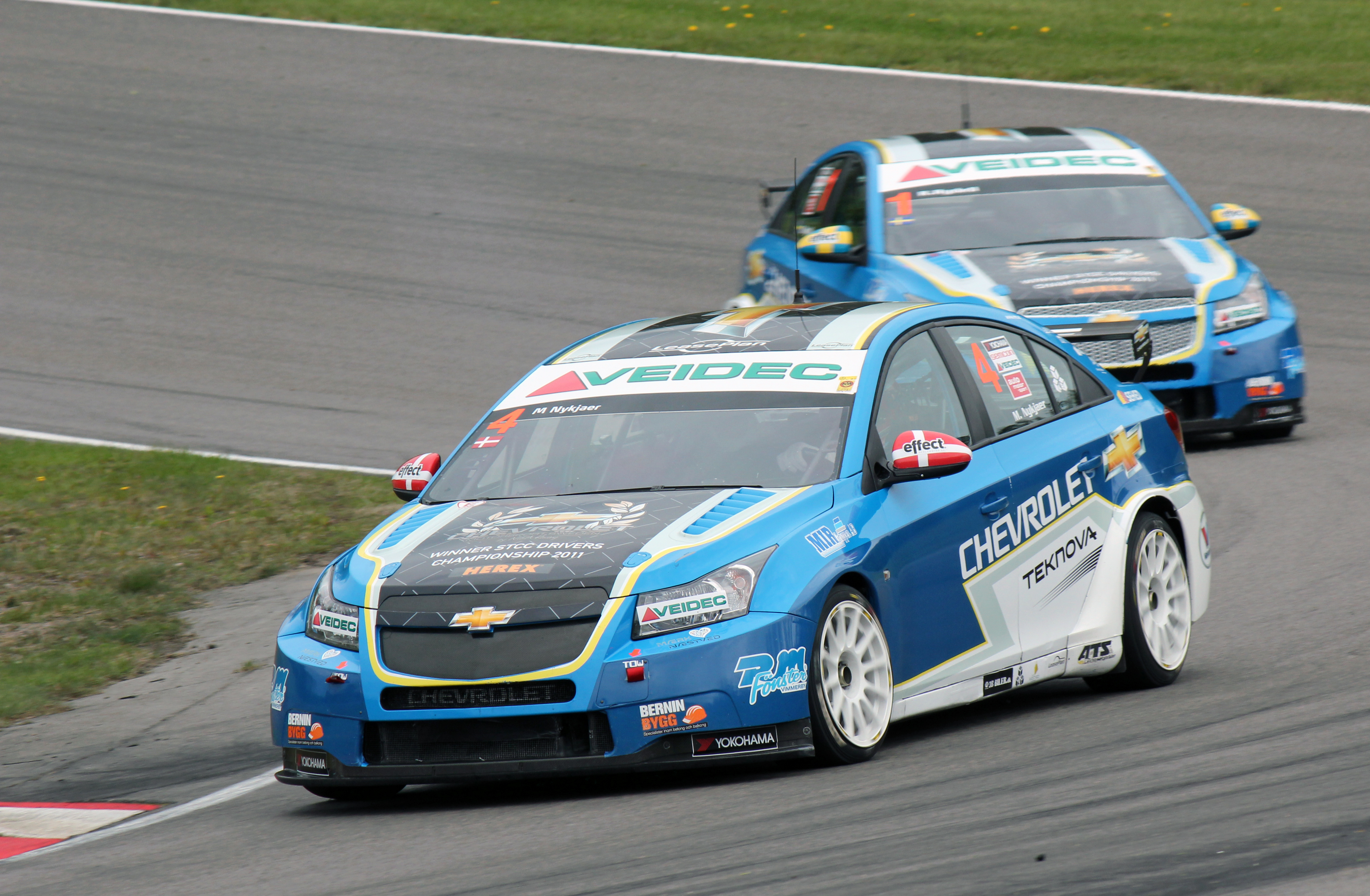 Michel Nykjær (followed by Rickard Rydell) in his Chevrolet Cruze for Chevrolet Motorsport Sweden at Ring Knutstorp in the 2012 Scandinavian Touring Car Championship.